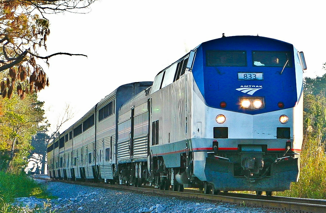 Amtrak's Sunset Limited rounds Pensacola Bay in December 2004.